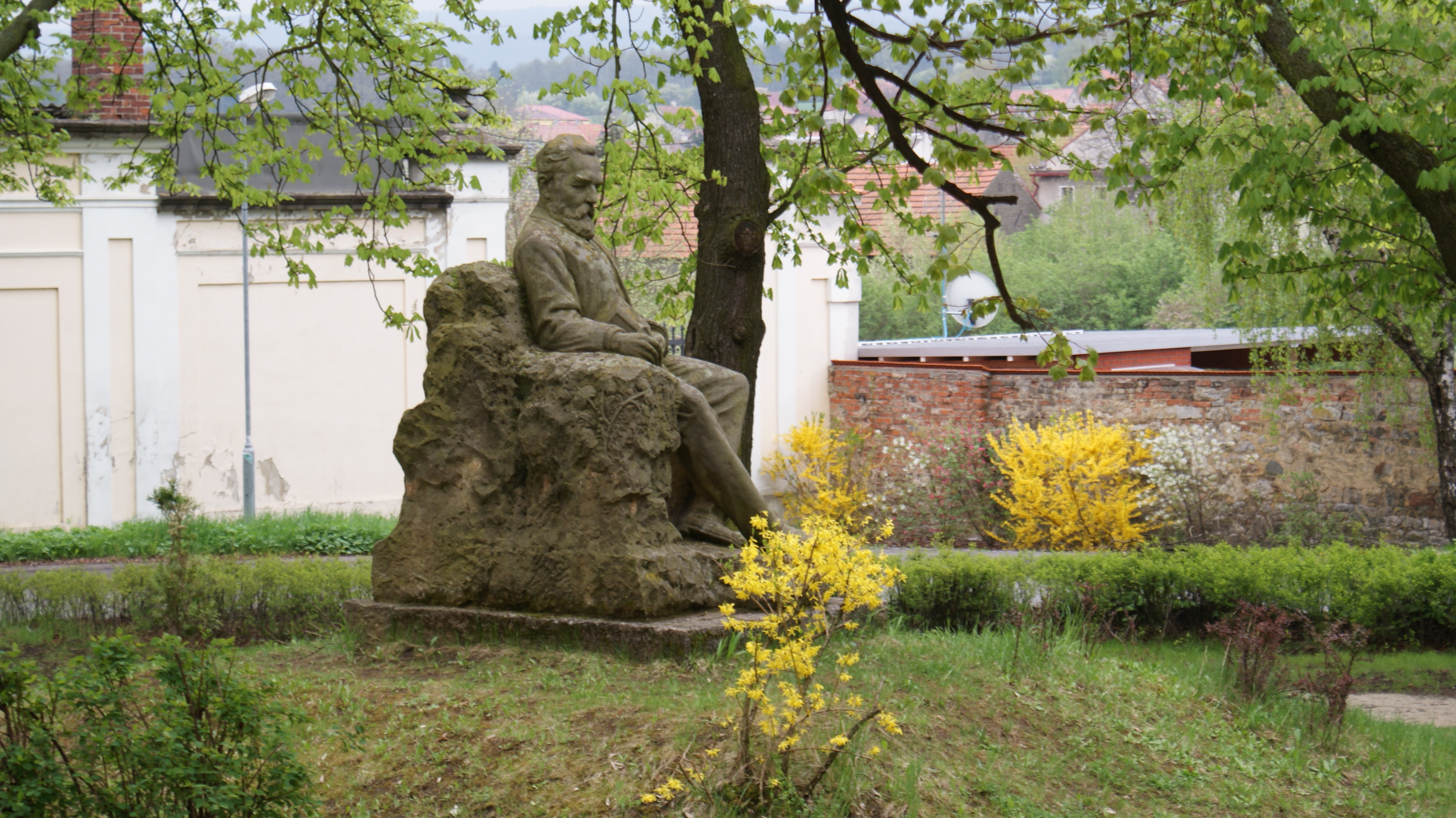 Svatopluk Čech Monument was built in 1938